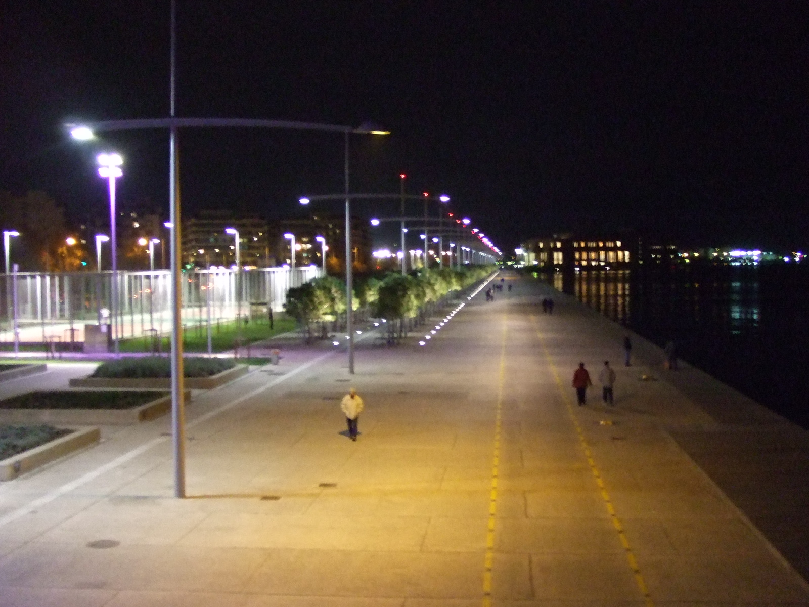 Thessaloniki Waterfront at early hours of the morning